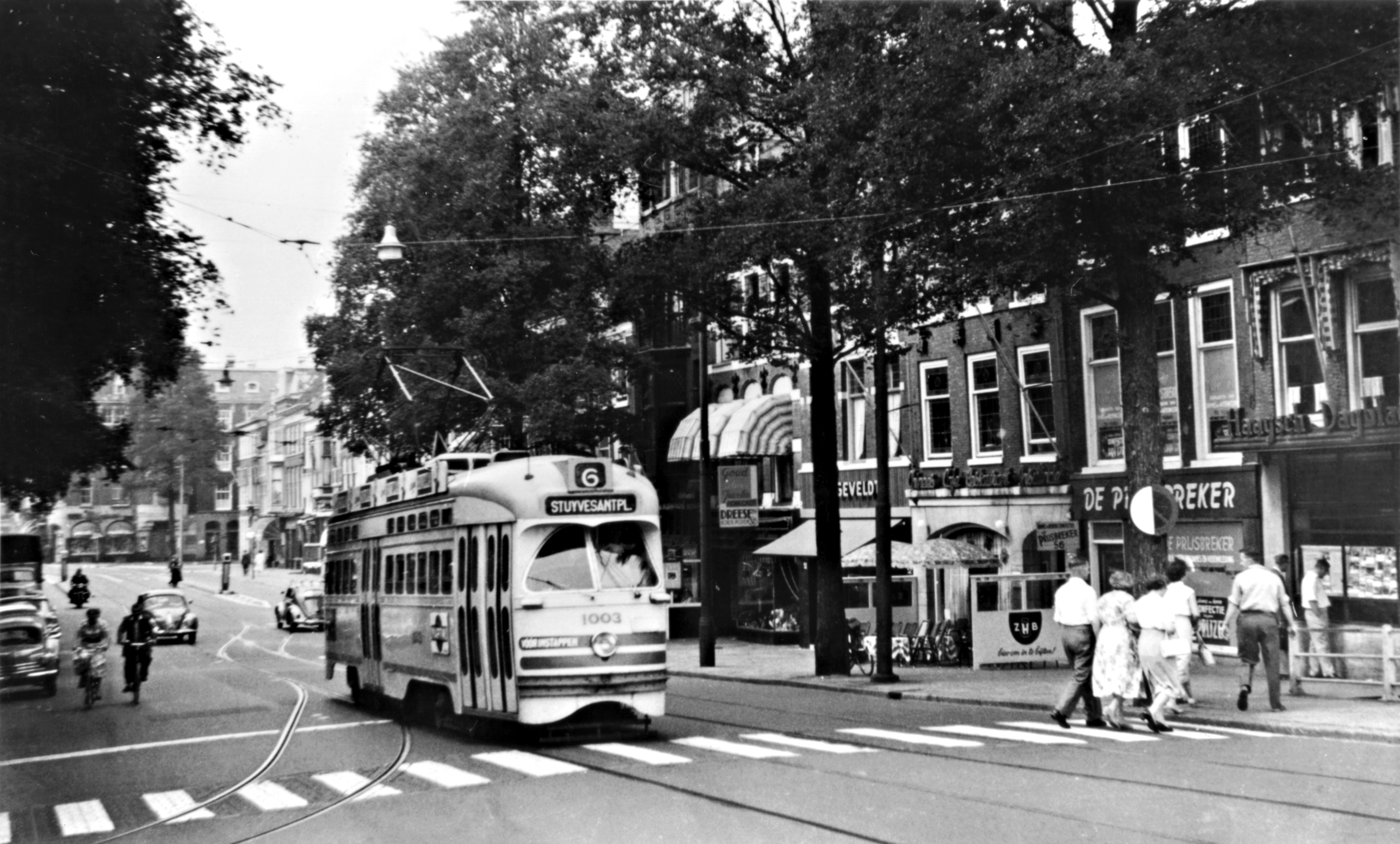 Herengracht in The Hague